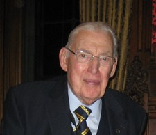 The Rev Doctor Ian Paisley